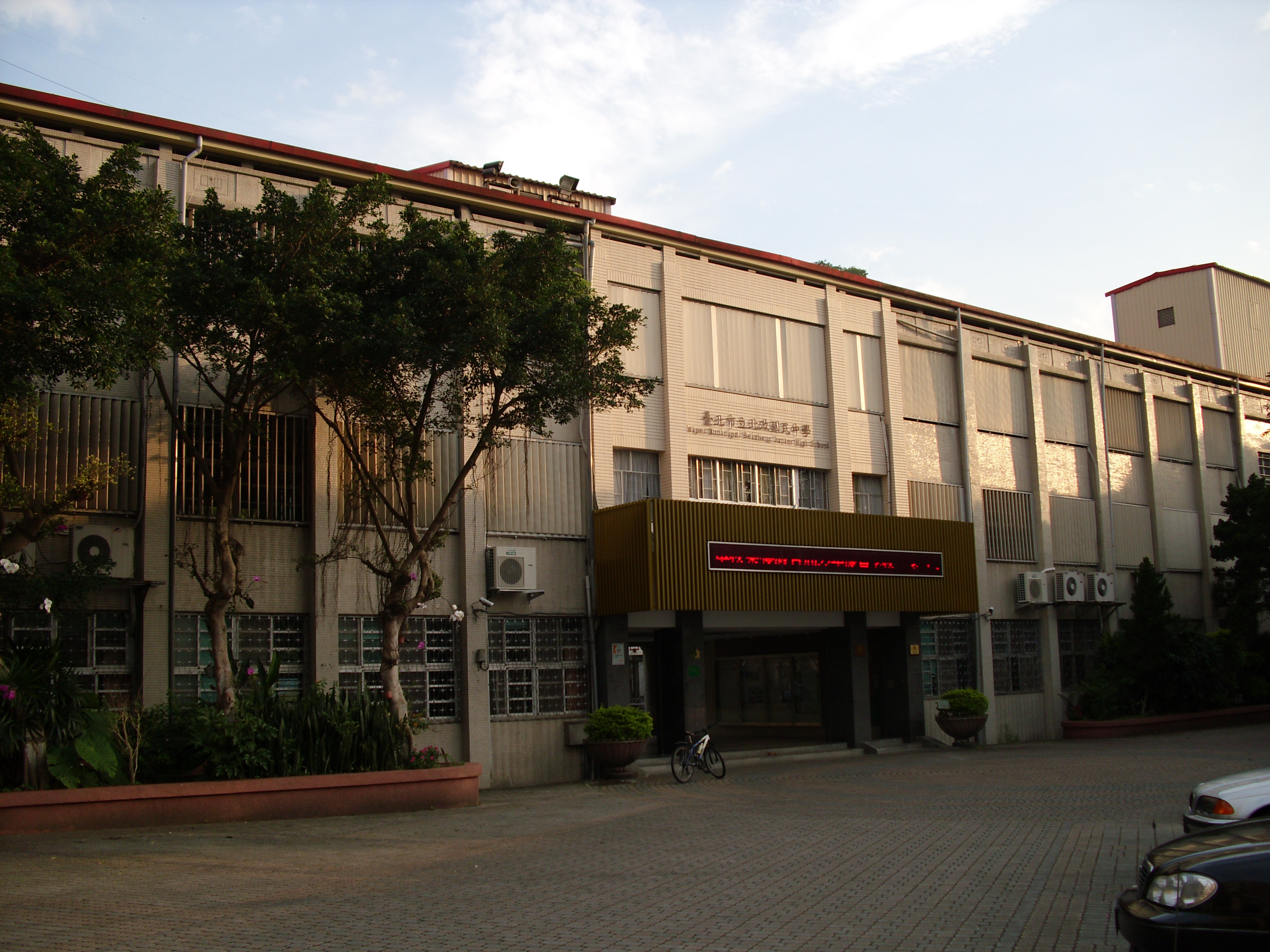 Taipei Municipal BeiZheng Junior High School